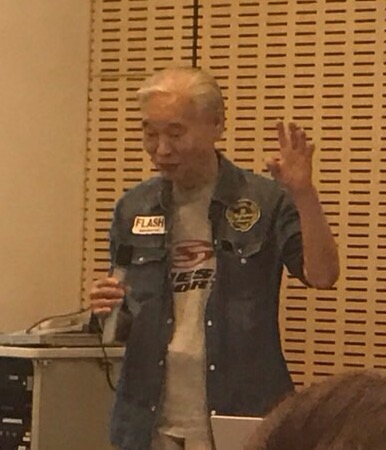 石平光男 (Mitsuo Ishihira) (Thanks to Y's lens)